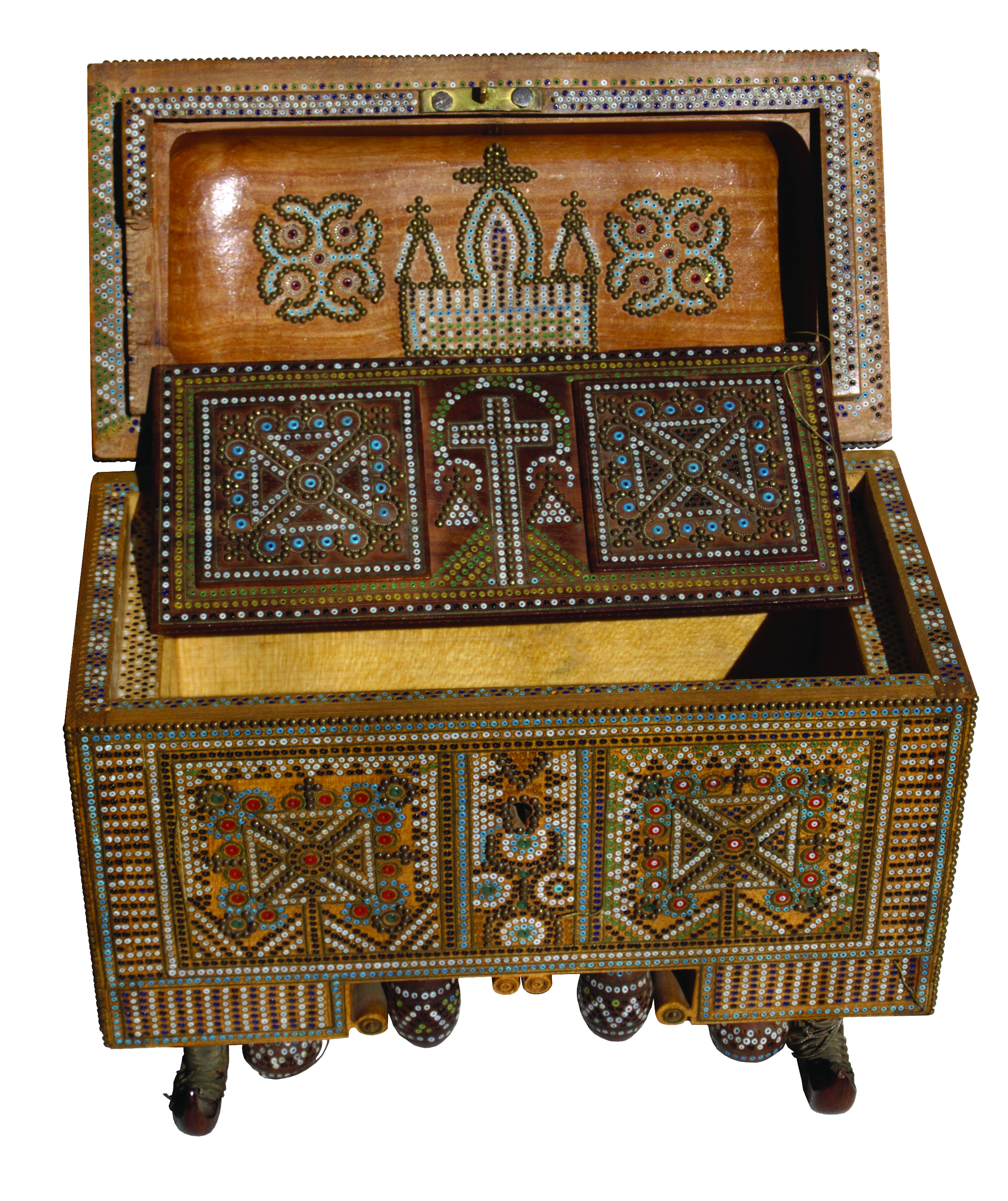 Skrunka